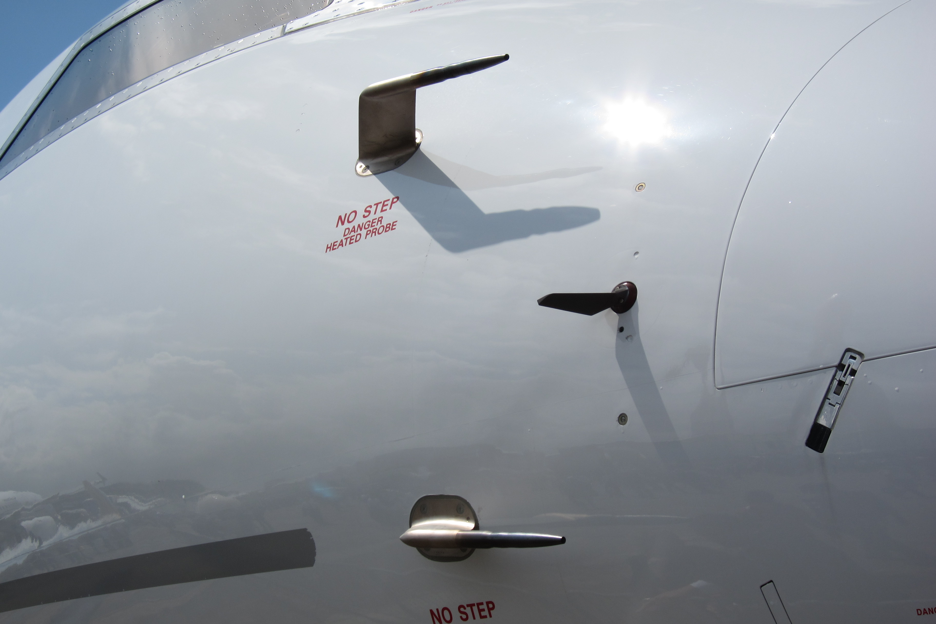 Two Pitot and one angle of attack (AoA) probes seen on the fuselage of a Bombardier Global 6000 on display at the Paris Air Show 2013